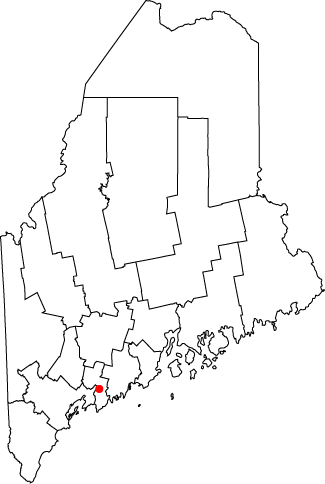 Map of the state of Maine with County Outlines, highlighting the city of Bath.